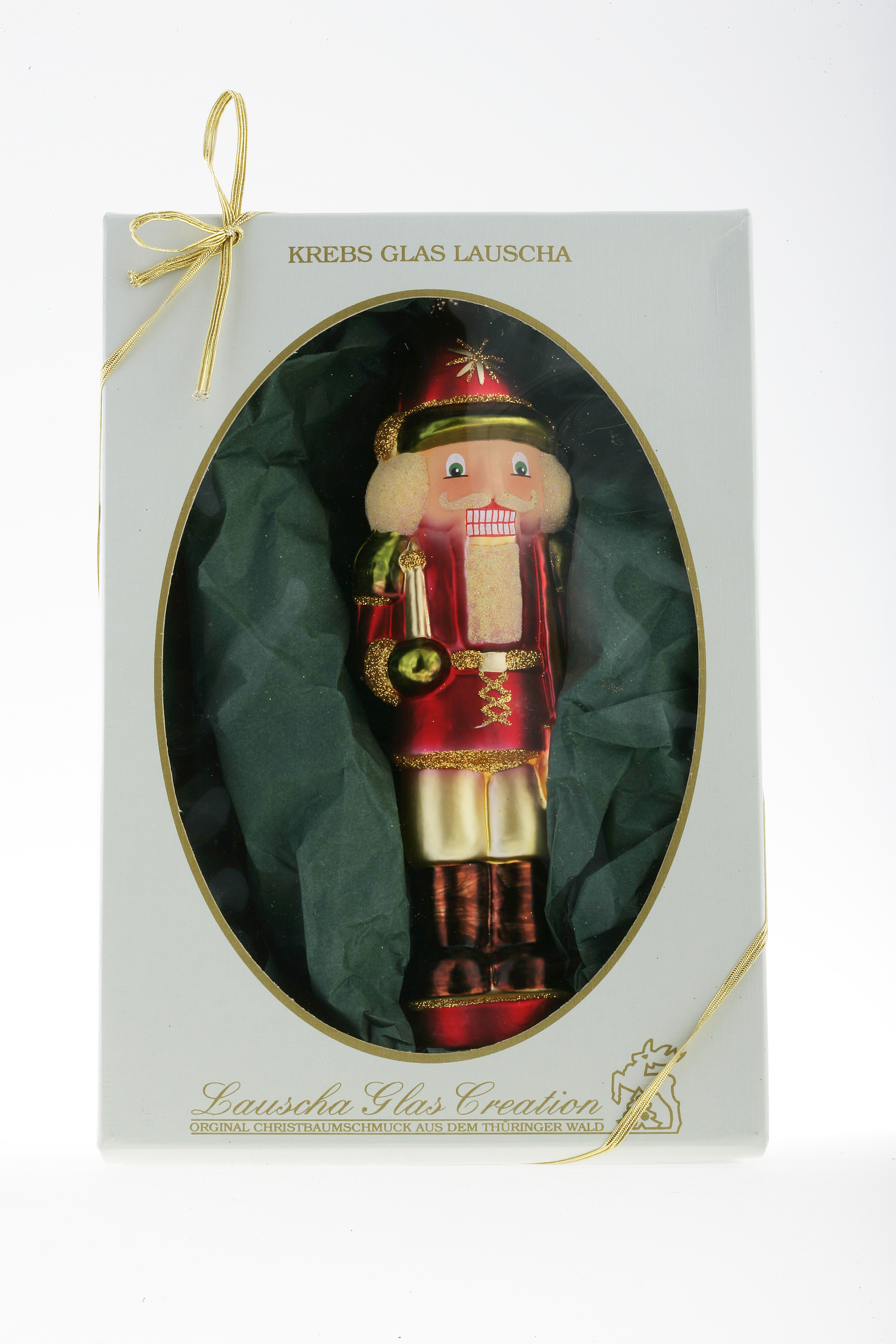 The ornaments from Krebs Glas Lauscha are collected worldwide. Lauscha is the birthplace of the Christmas ornaments